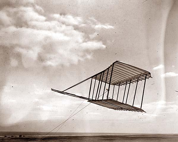 Wright Brothers 1900 Glider Test Flight